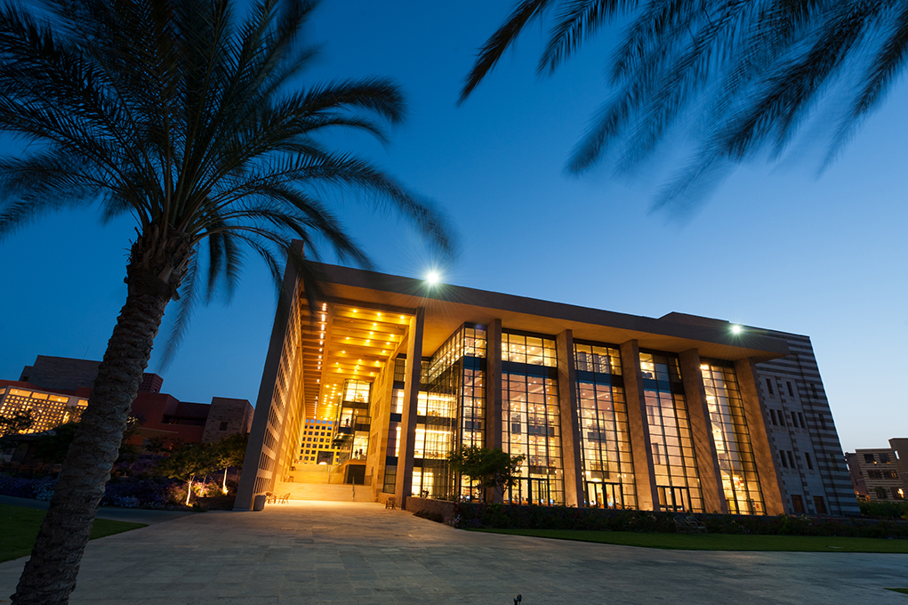 Exterior view of the AUC Library building on the New Cairo campus, seen from the garden side.